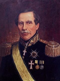 Portrait of the general and County Governor Gustaf Jacob af Dalström (1785-1867), here as military commander of Gotland National Conscription.